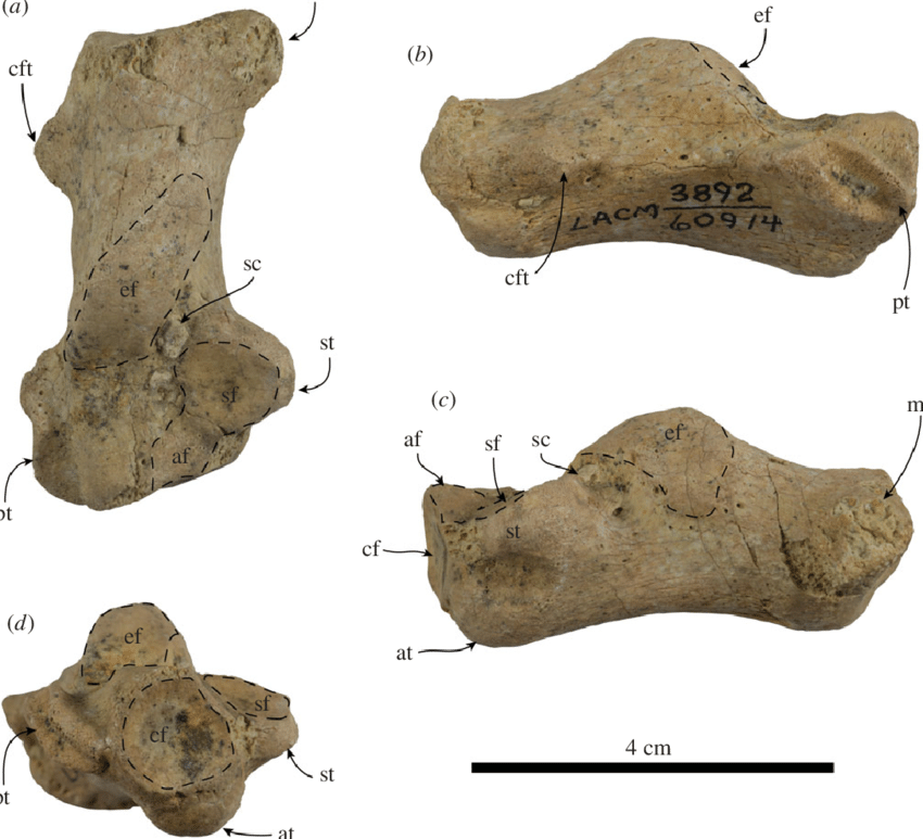 Right calcaneum LACM 60914 referred to Nanodobenus arandai gen. et sp. nov. in dorsal view